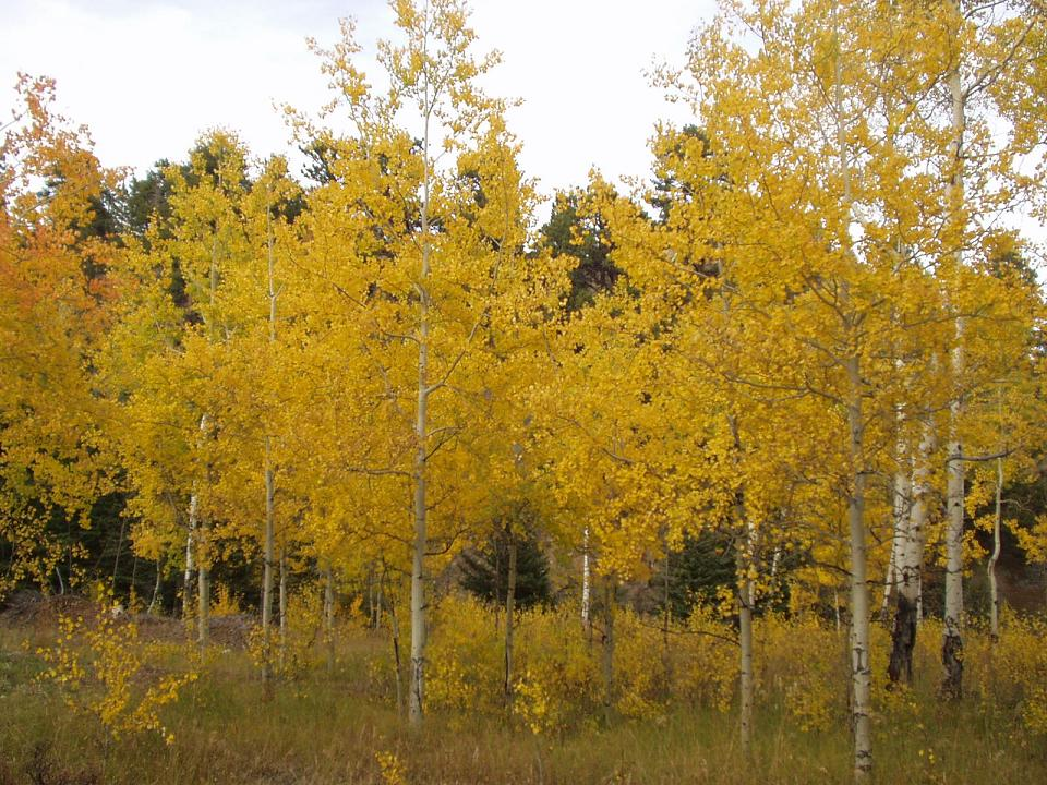 Autumn in the Bighorn Mountains just west of Buffalo, Wyoming.